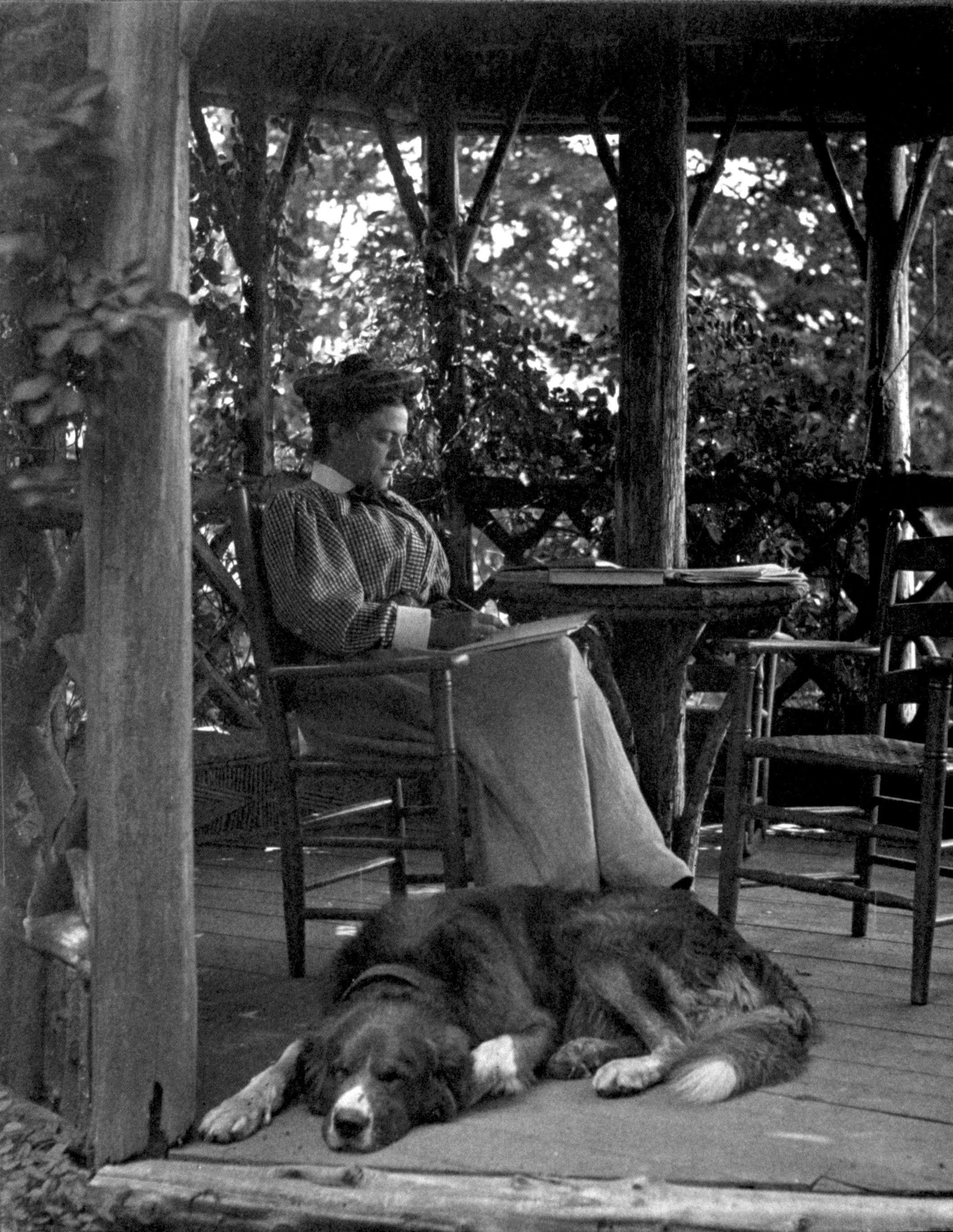 American novelist and nature writer Mabel Osgood Wright (1859-1934) photographed by her husband James Osborne Wright.